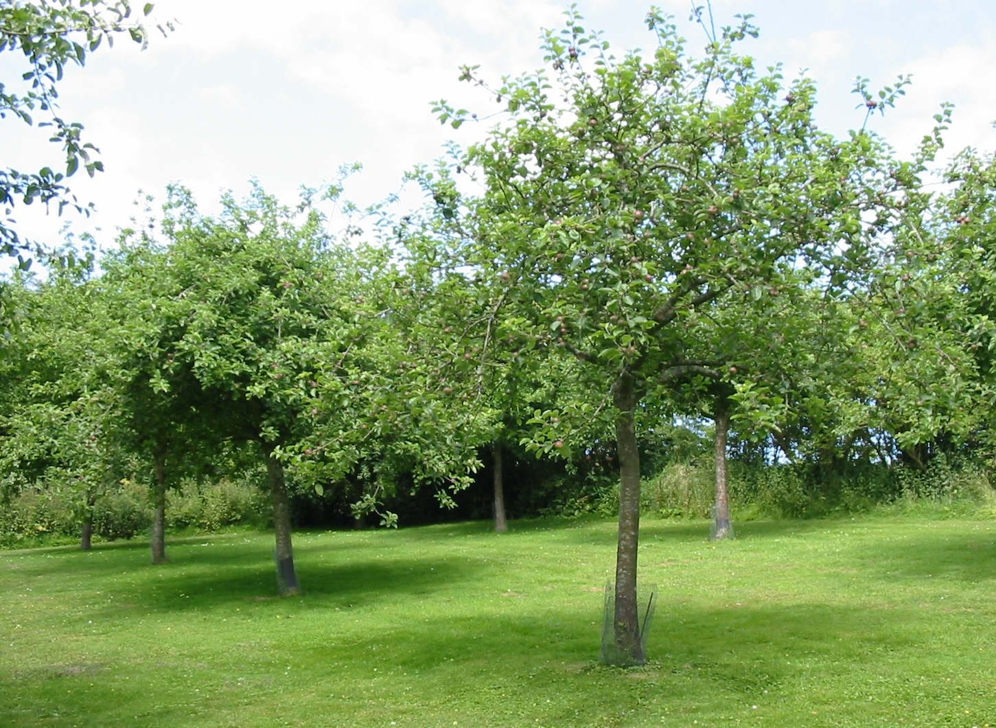 Hamptonne